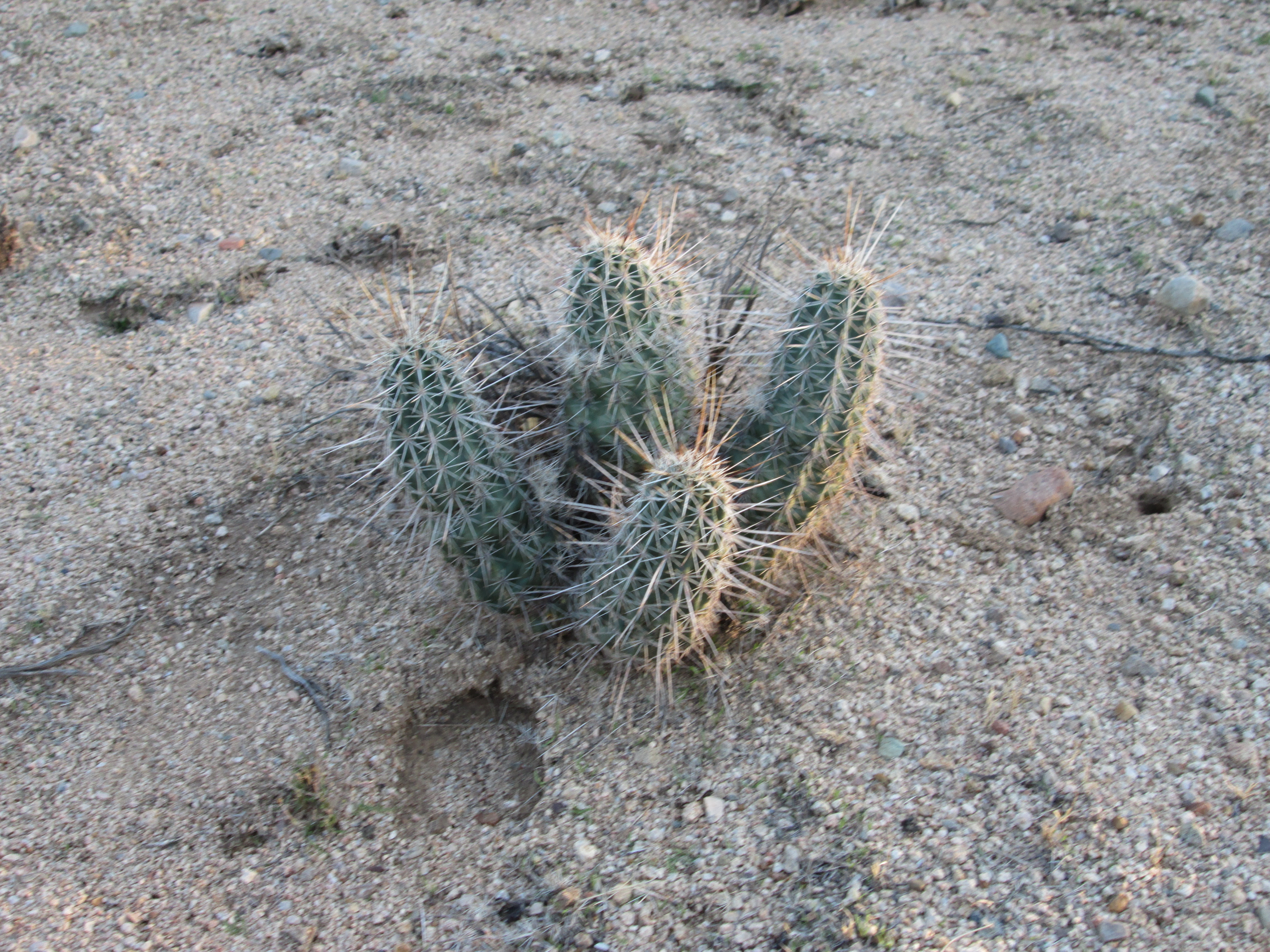 Wild hedgehog cactus in Sahuarita, Arizona. December 11, 2013